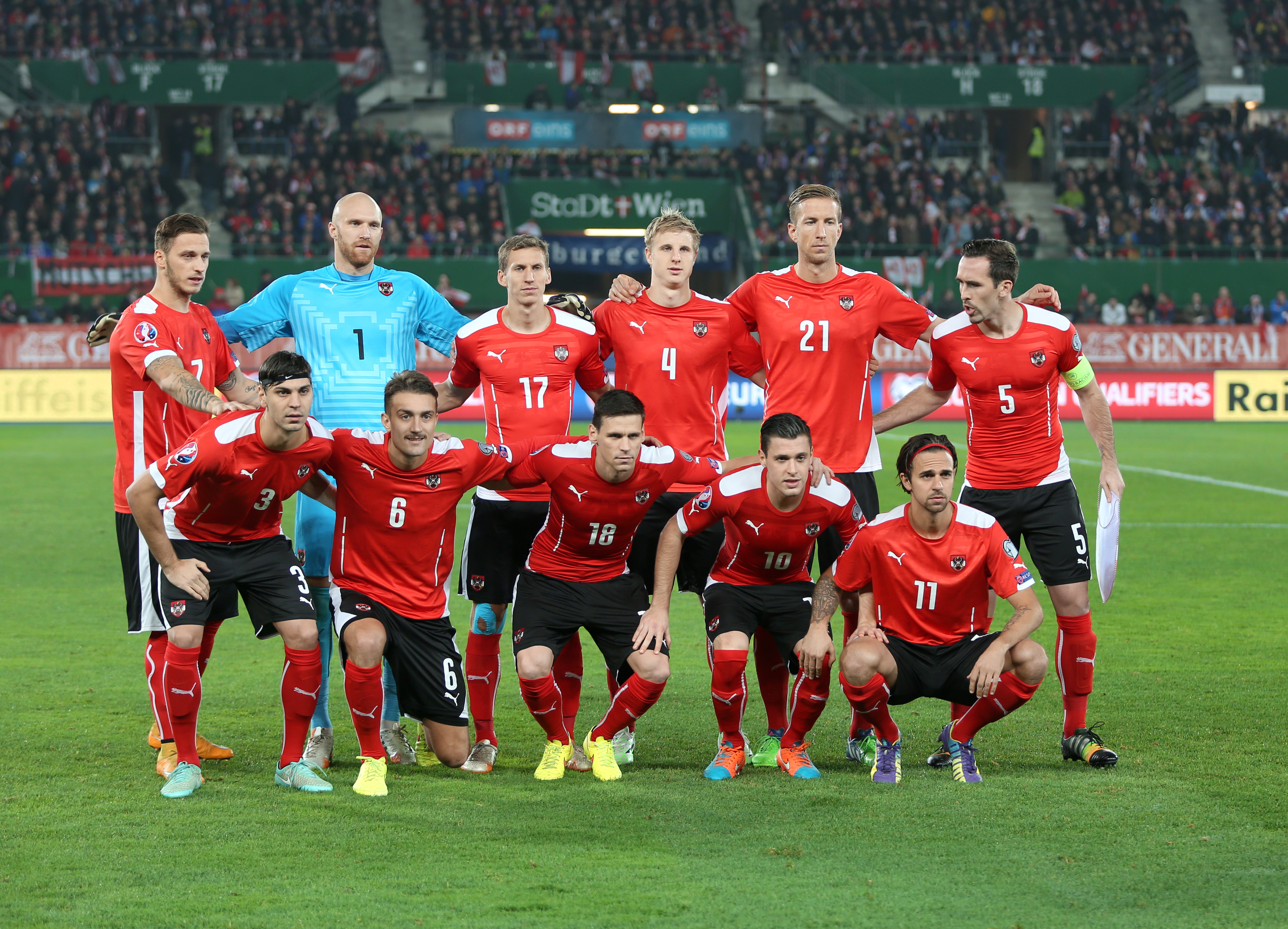 Before the qualification match for UEFA Euro 2016: Austrian national football team (pictured) vs. Russian national football team; Ernst-Happel-Stadion in Vienna, Austria.